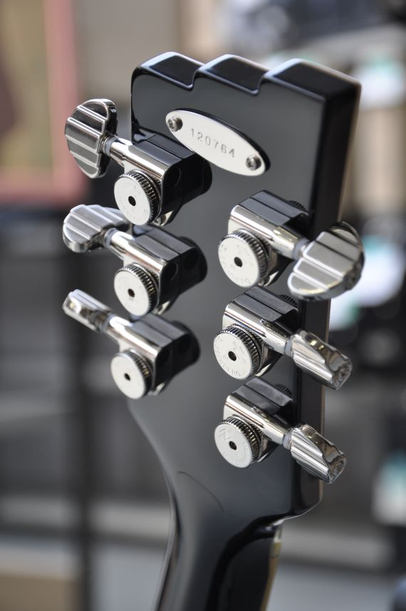 Duesenberg Z-Tuner